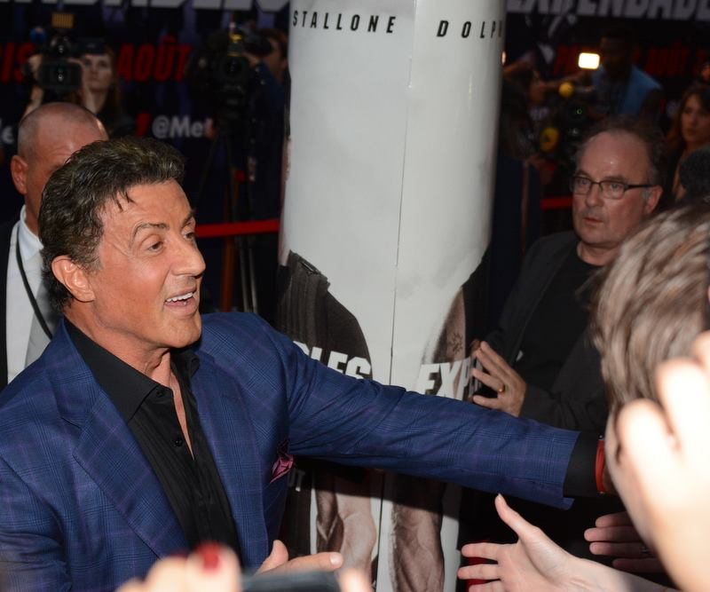 Sylvester Stallone in Paris at the French premiere of "The Expendables 3"